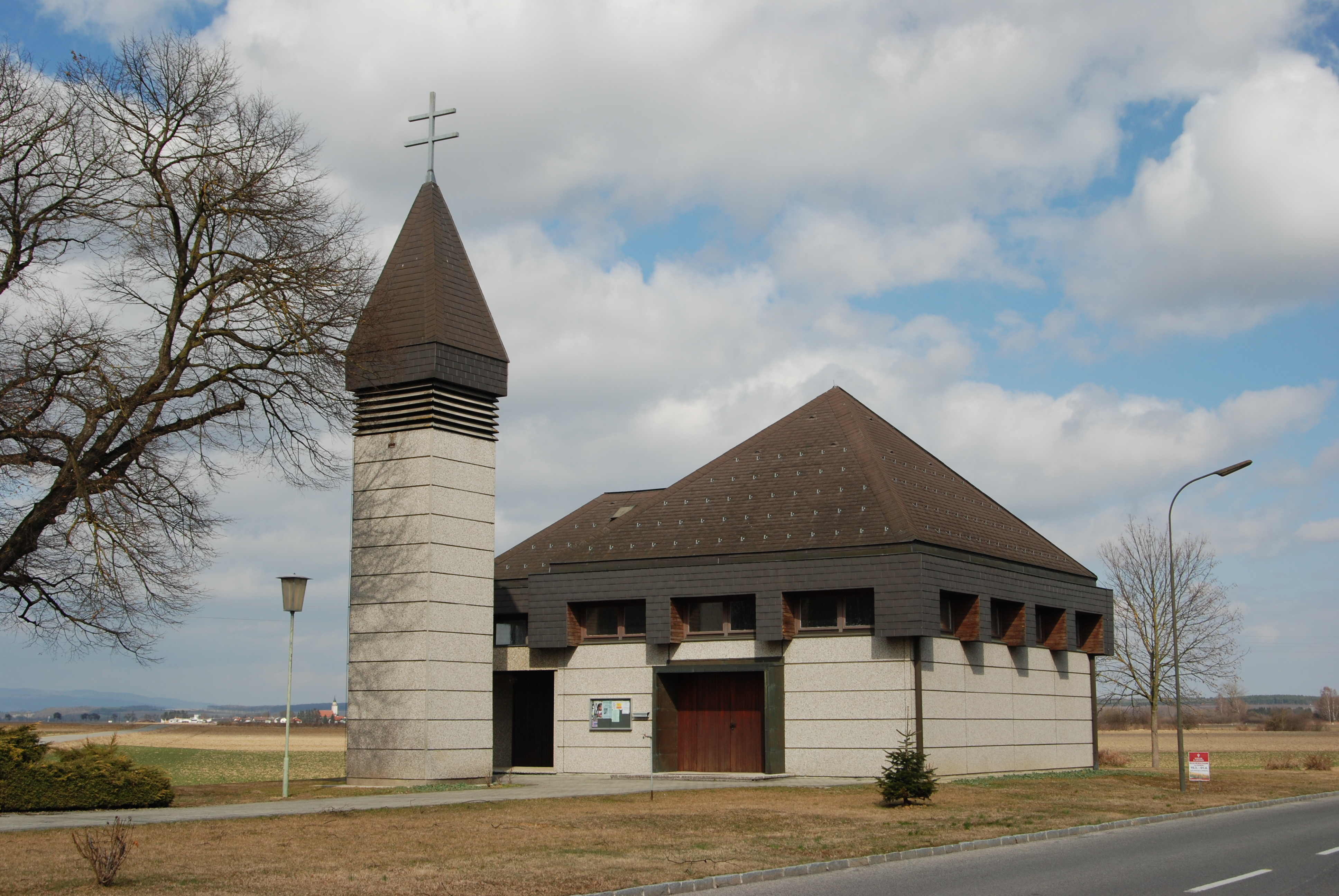 Kirche Höll